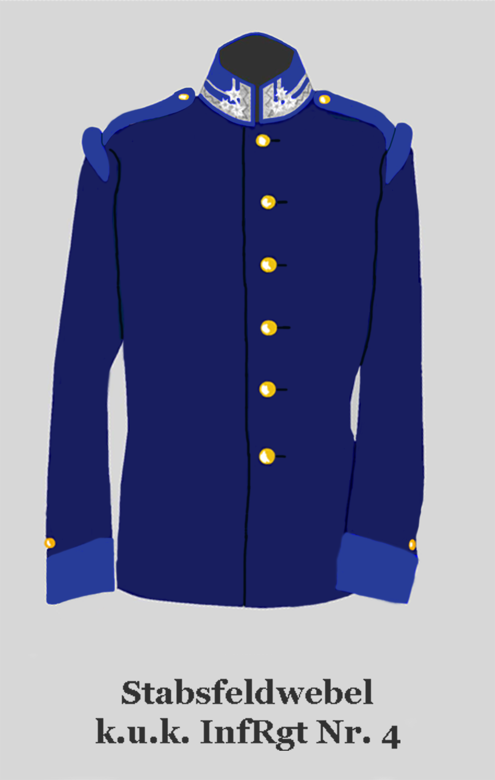 Tunic of an 1st Sergent of the Austria-Hungarian 4th Infatry Regiment